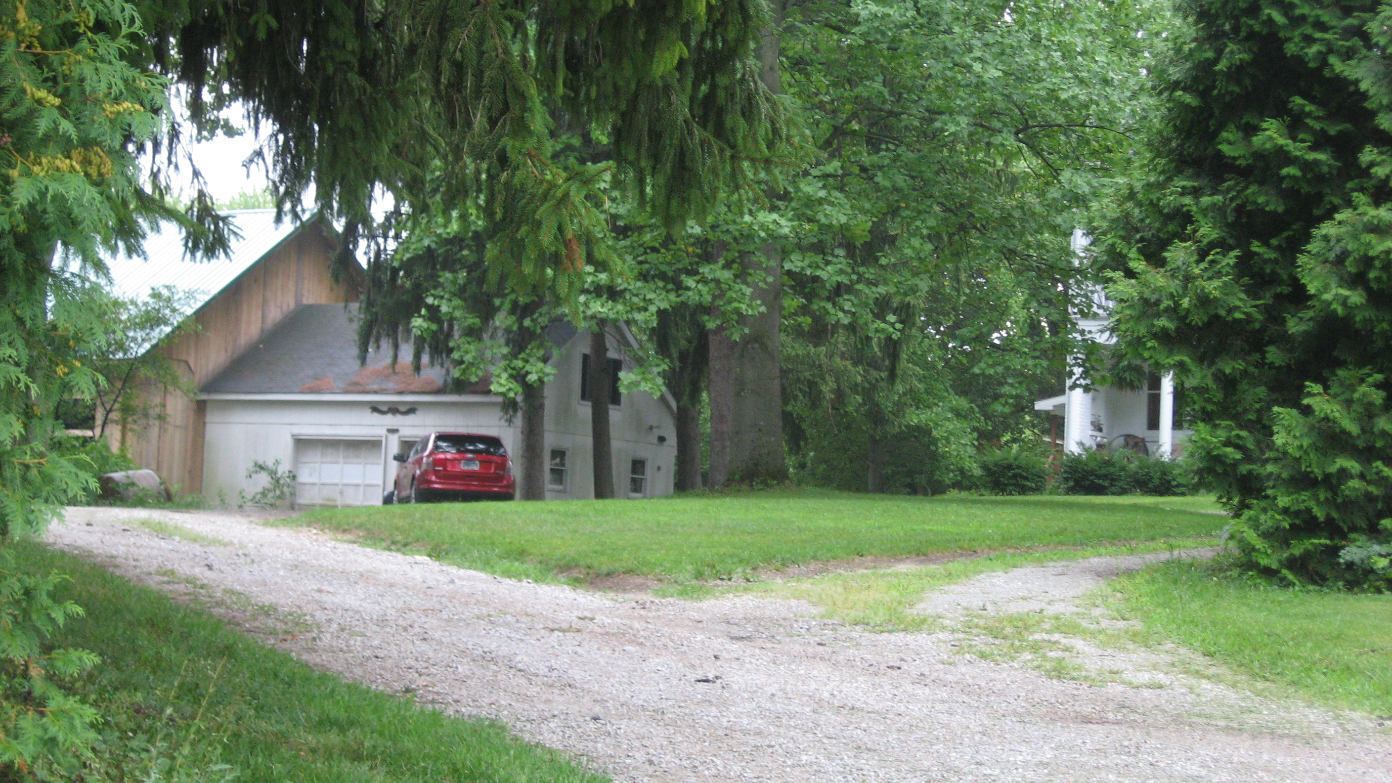 Driveway to the Witt-Champe-Myers House, located on the southeastern corner of the intersection of Spring and Foundry Streets in Dublin, Indiana, United States. Built in 1837 and visible to the right, it is listed on the National Register of Historic Places along with three related buildings, one of which is visible on the left.